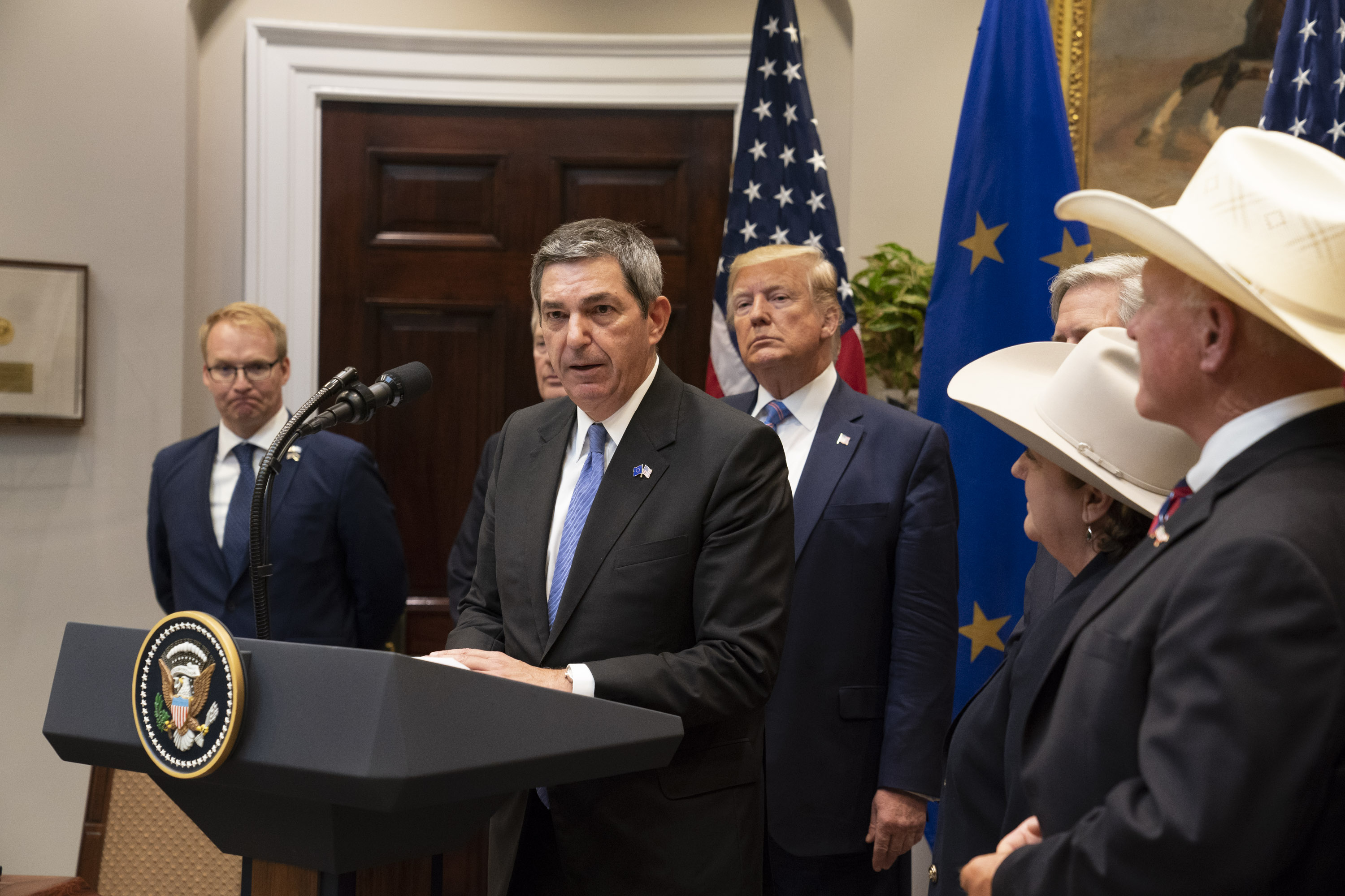 President Donald J. Trump listens as European Union Ambassadoir Stavros Lambrinidis delivers remarks Friday, Aug. 2, 2019, in the Roosevelt Room of the White House, at the announciement of an agreement between the U.S. and the European Union to increase U.S. beef exports to European markets. (Official White House Photo by Joyce N. Boghosian)